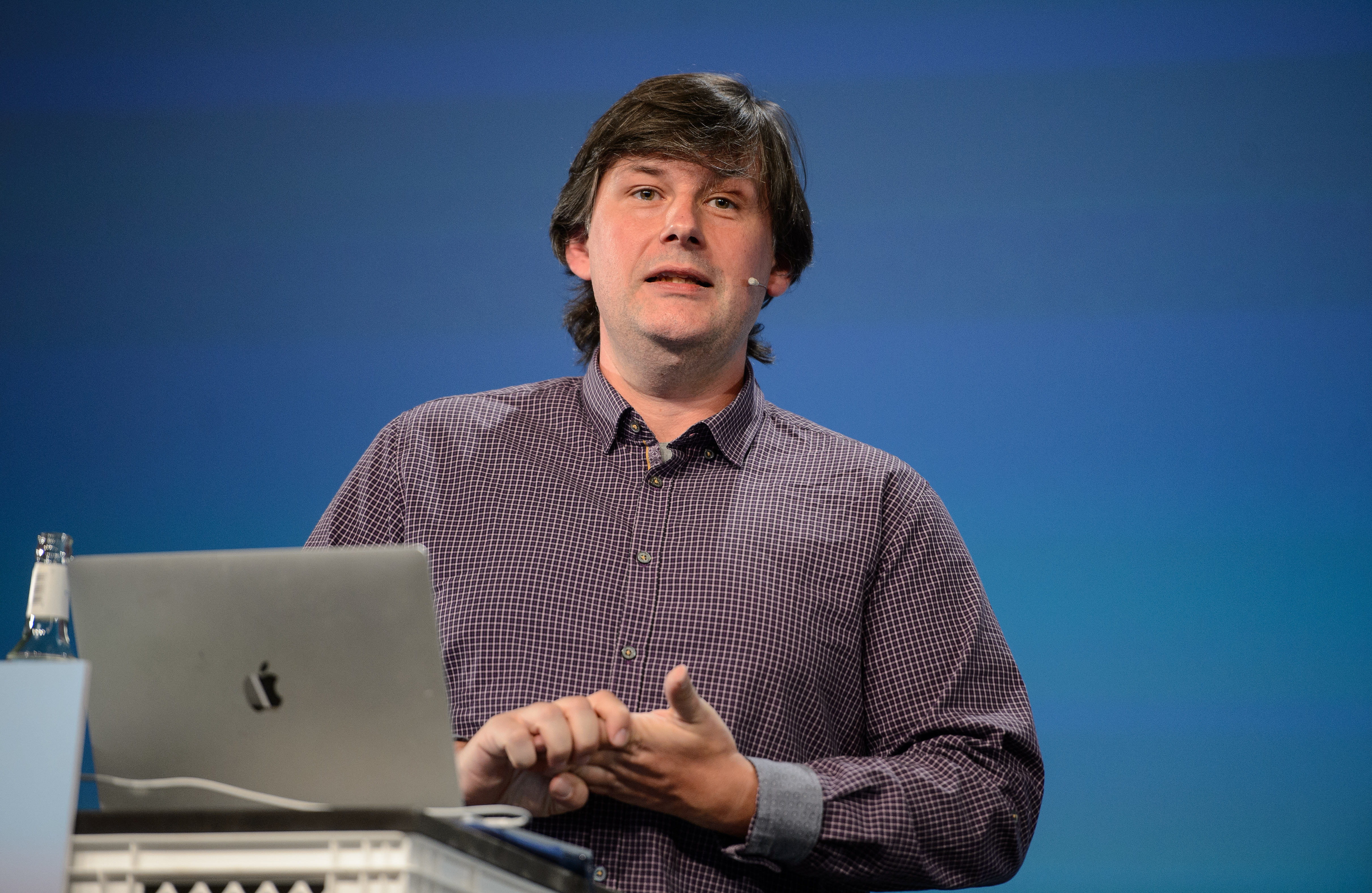 Talk "Notes from an emergency" am 10.05.2017 mit Maciej Ceglowski auf der re:publica (#rp17) in Berlin. Foto: re:publica/Gregor Fischer